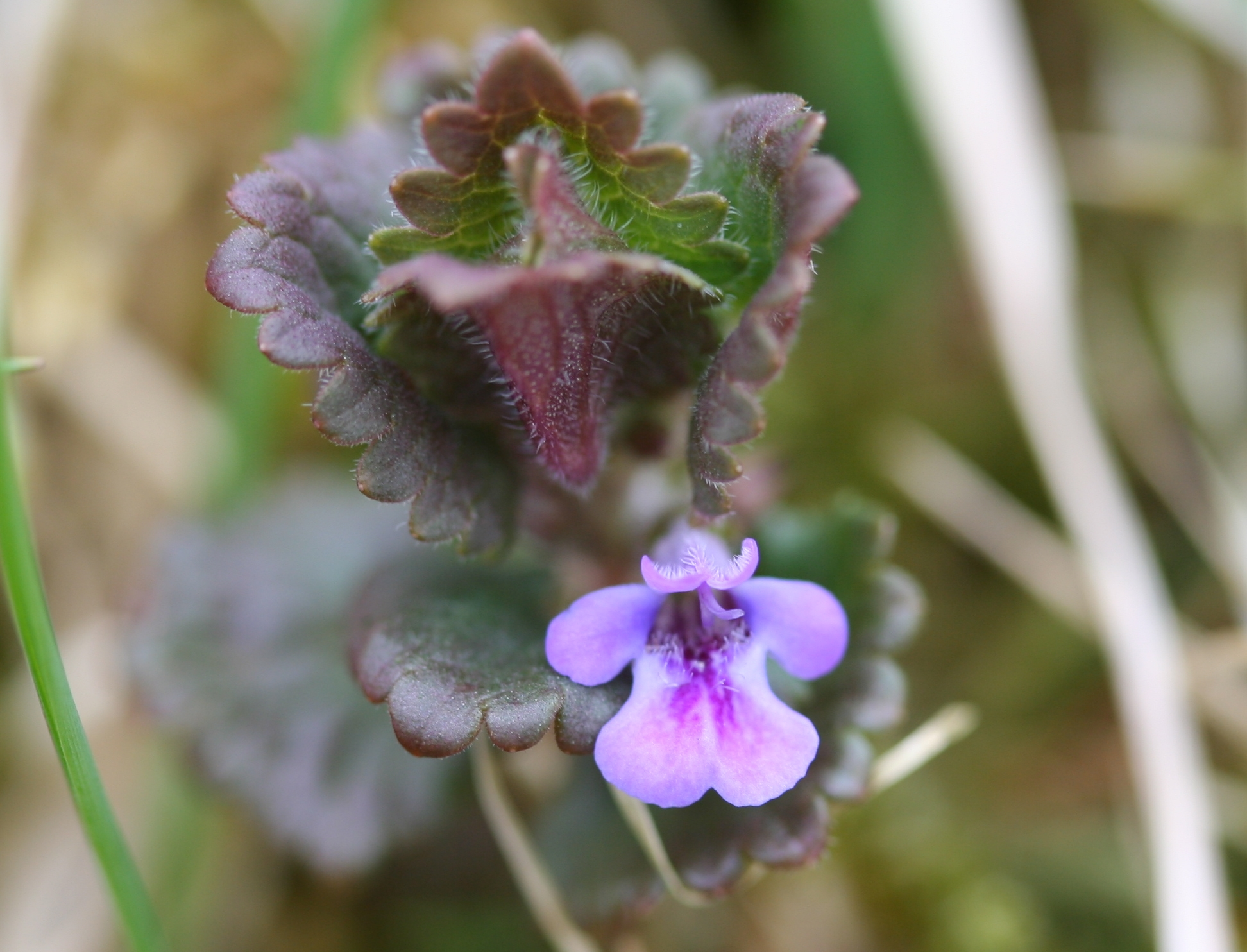 Glechoma_hederacea 16 april 2006 IJmuiden, the Netherlands